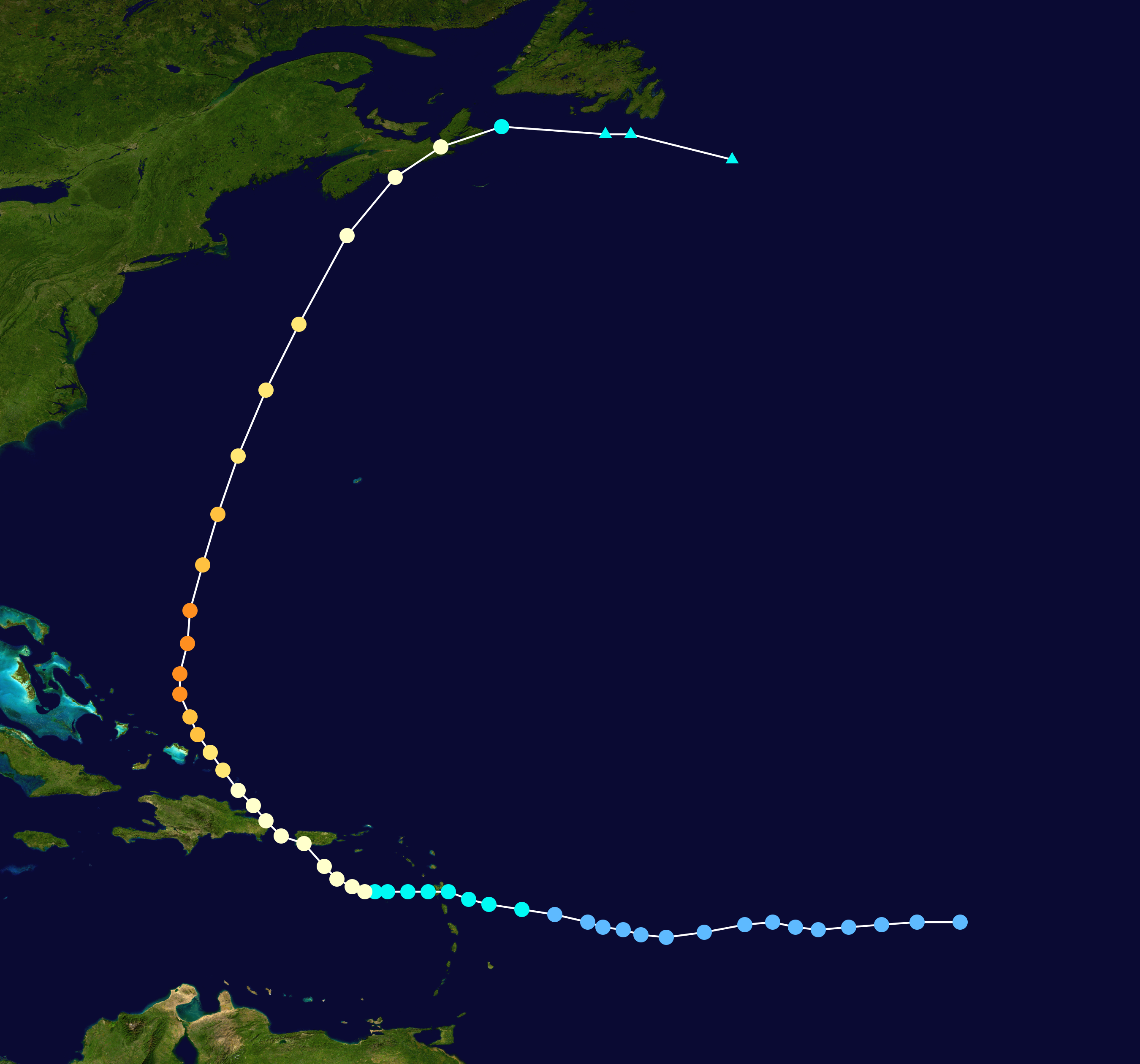 Track map of Hurricane Hortense of the 1996 Atlantic hurricane season. The points show the location of the storm at 6-hour intervals. The colour represents the storm's maximum sustained wind speeds as classified in the Saffir–Simpson scale (see below), and the shape of the data points represent the nature of the storm, according to the legend below. Saffir–Simpson scale Tropical depression≤38 mph≤62 km/h Category 3111–129 mph178–208 km/h Tropical storm39–73 mph63–118 km/h Category 4130–156 mph209–251 km/h Category 174–95 mph119–153 km/h Category 5≥157 mph≥252 km/h Category 296–110 mph154–177 km/h Unknown Storm type Tropical cyclone Subtropical cyclone Extratropical cyclone / Remnant low / Tropical disturbance / Monsoon depression